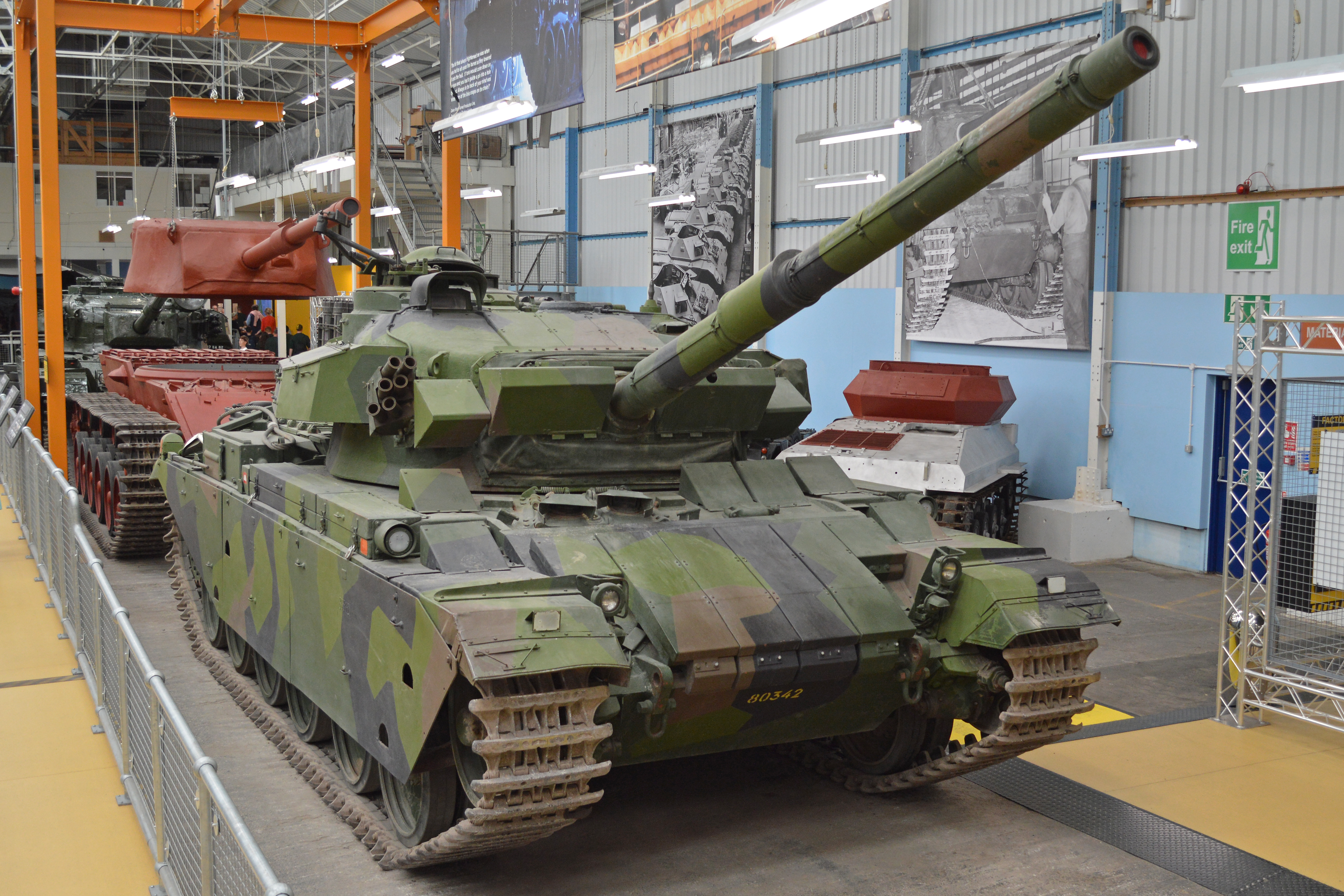 Swedish Army serial:- 80342 Previous British registration:- 05 BA 71 The Stridsvaegn 104 (Strv 104) was the final update of the British Centurion Main Battle Tank in the Swedish Army. 350 Centurions saw Swedish service, this being one of the original six Centurion Mk3 delivered in 1953. Initially designated as the Strv 81, it was later updated to Strv 102 and finally to Strv 104 standard. It is in running order and is on display at The Tank Museum, Bovington, Dorset, UK. 26th July 2016